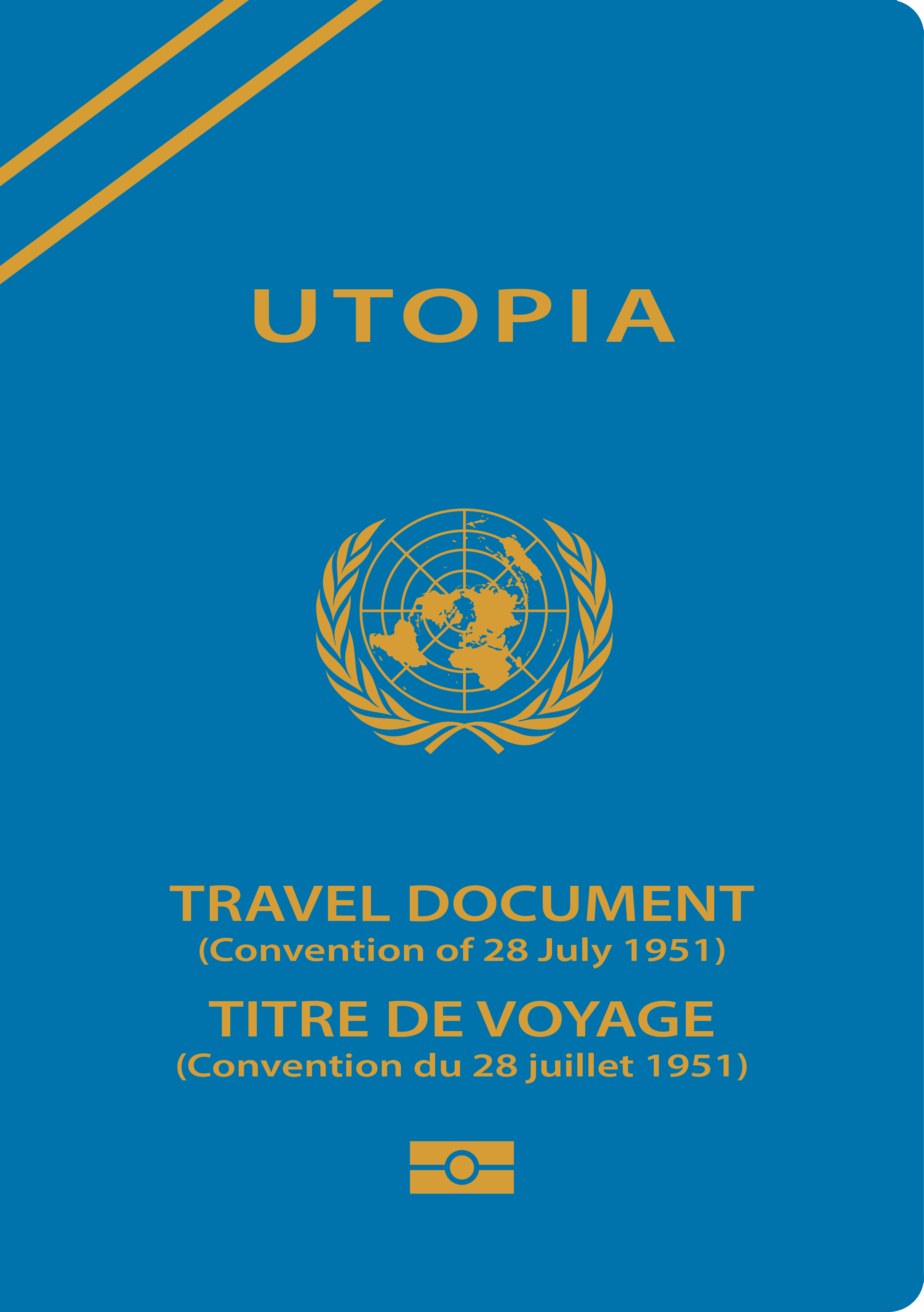 A sample design of 1951 convention travel document, according to the ICAO guideline. Other information File:Emblem_of_the_United_Nations.svg (public domain) was used